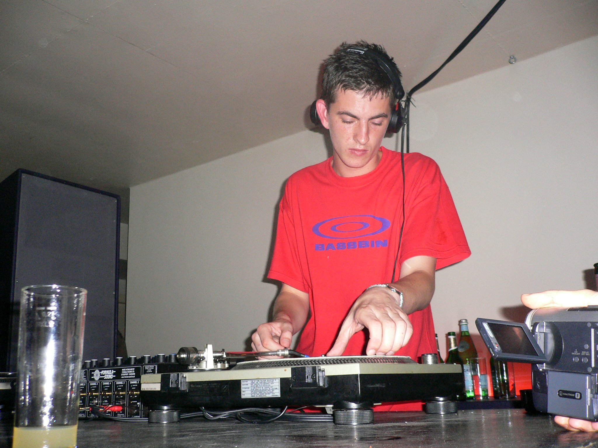 Skream in Dusseldorf.